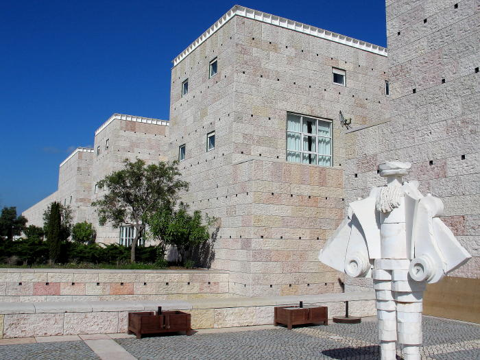 the largest building with cultural facilities in Portugal